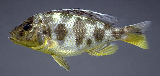 Young adult individual freshly collected from Lake Malawi, showing the typical color pattern of broken vertical bars. Photographed in a photographic tank.